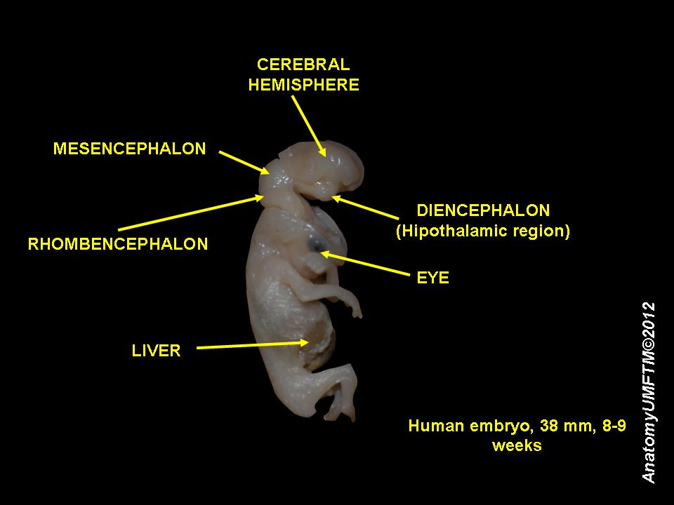 Dissection